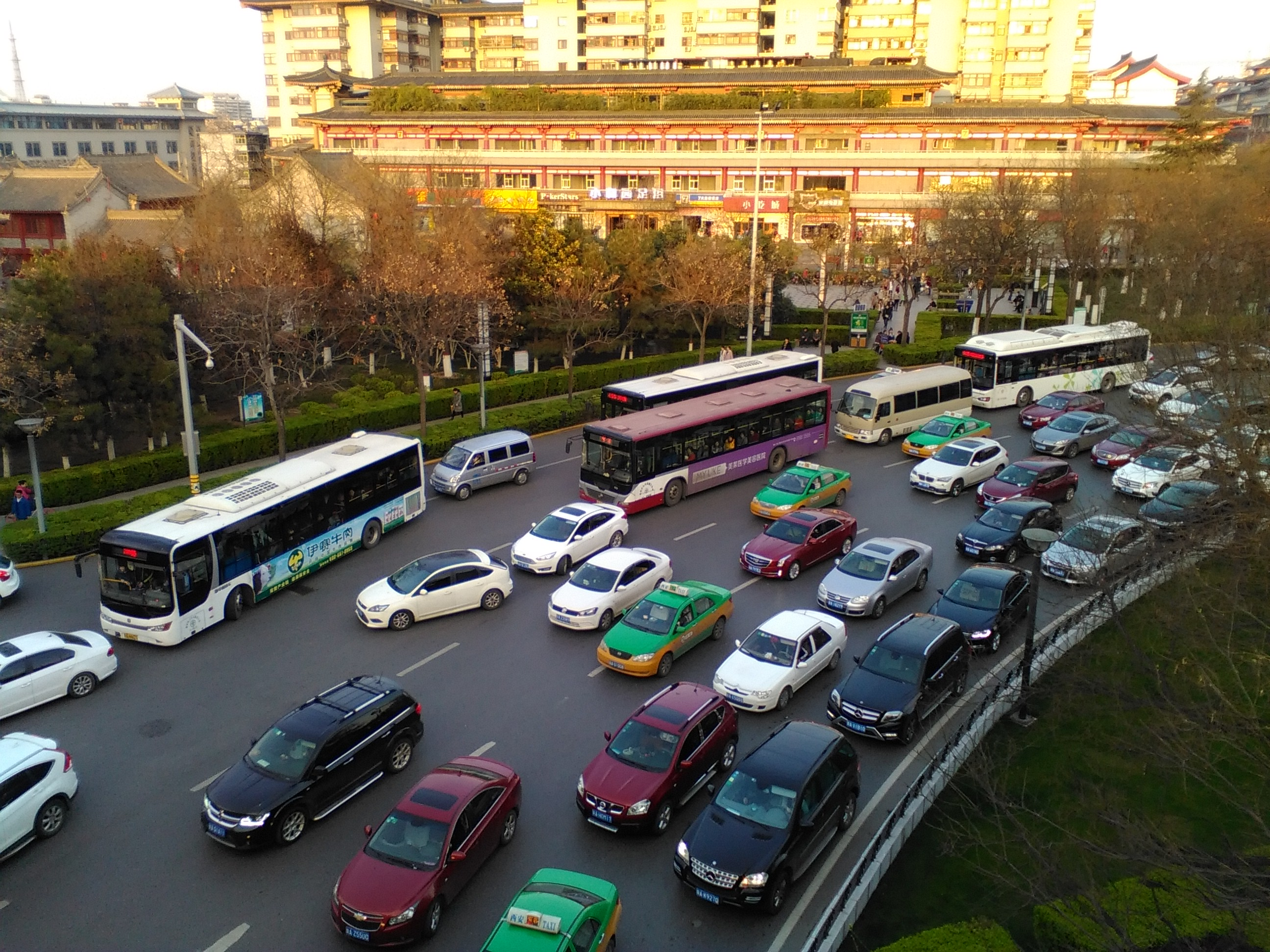 Traffic jam in Xi'an, taken from Fortifications of Xi'an on March 30, 2017.